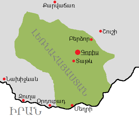 The map of Mountainous Armenia in Armenian.